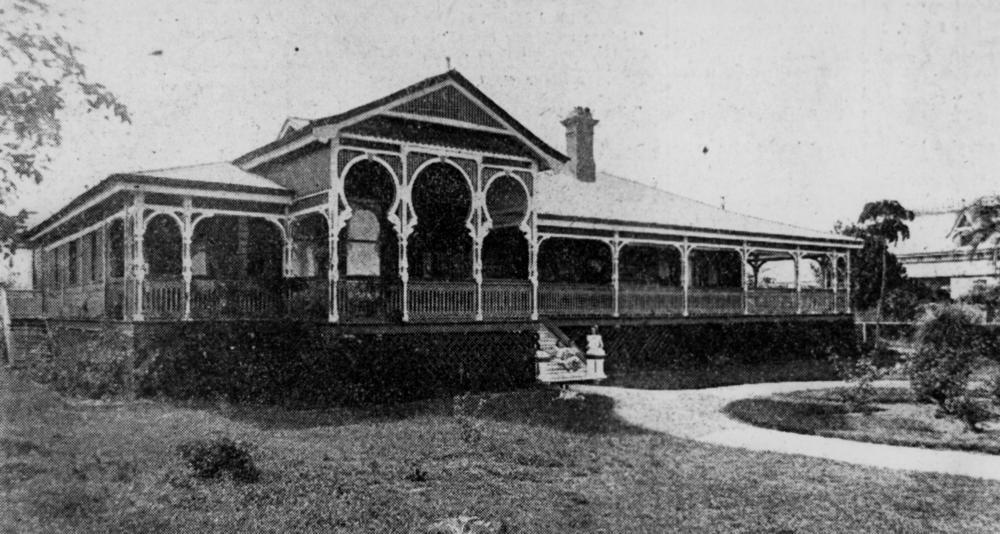 Federation style residence at Chelmer, 1906 Waterton at Chelmer, the home of Mr. T.B. Steele in 1906. Note the gabled roof, decorative pediment and wide verandahs. There is a circular drive leading past the front steps.